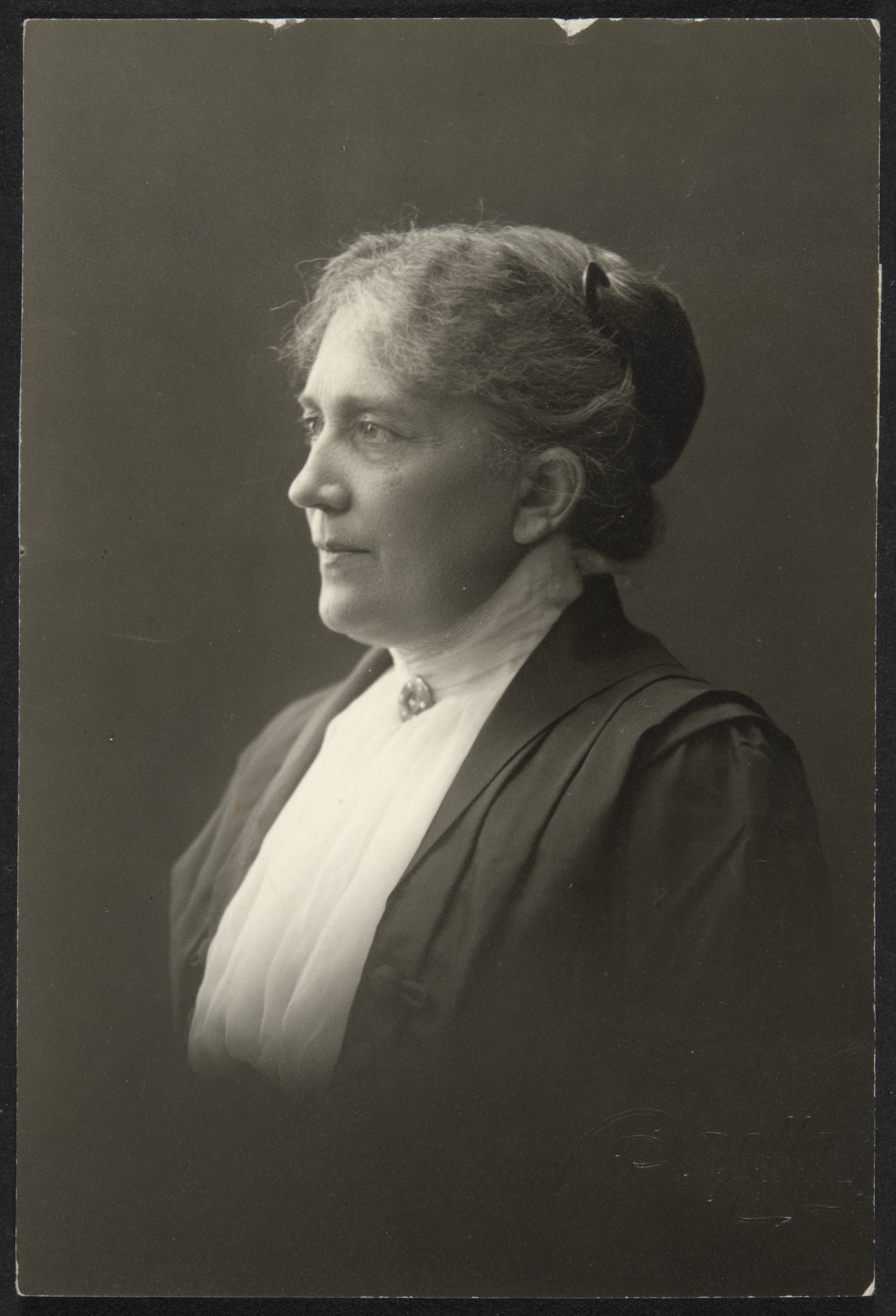 Finnish women's rights activist